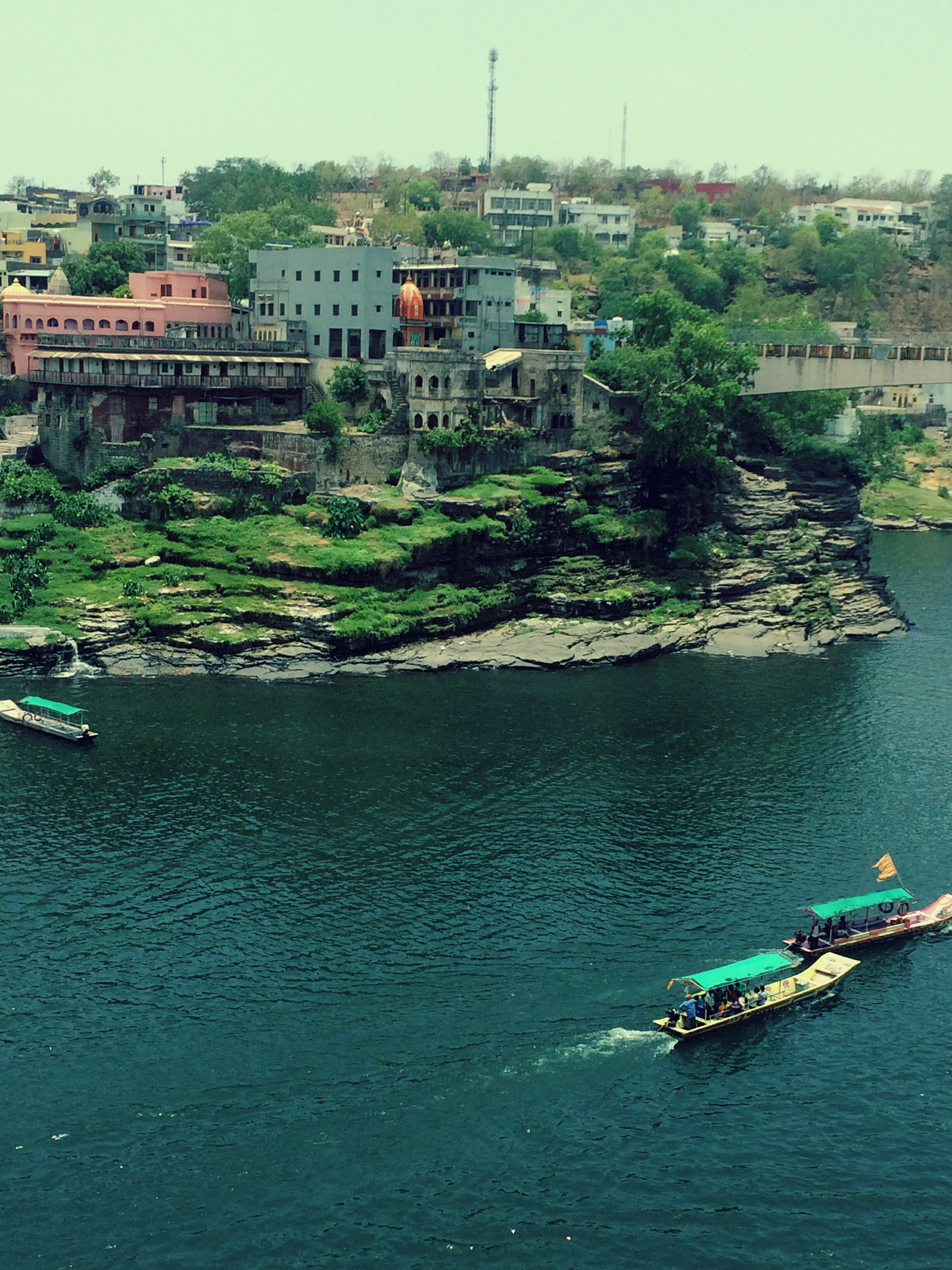 It's the Narmada river captured with the lush green rocks taken from the well reknowned mahakaleshwar temple in Ujjain